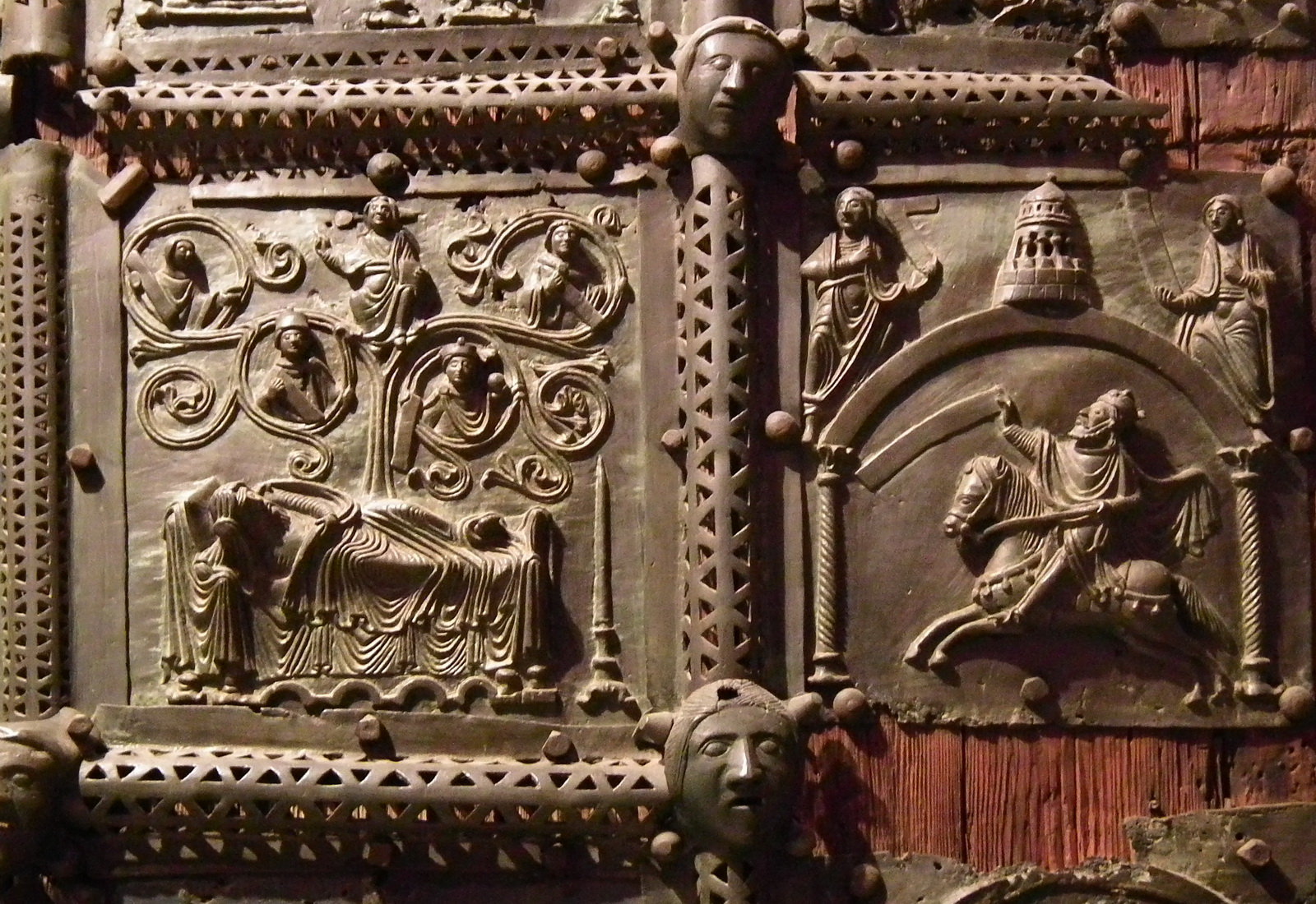 Details on the right panel of the Bronze door. Basilica of San Zeno, Verona Native nameBasilica di San ZenoLocationVerona, Veneto, ItalyCoordinates45° 26′ 33″ N, 10° 58′ 45″ E Established12th/13th centuryWebsite